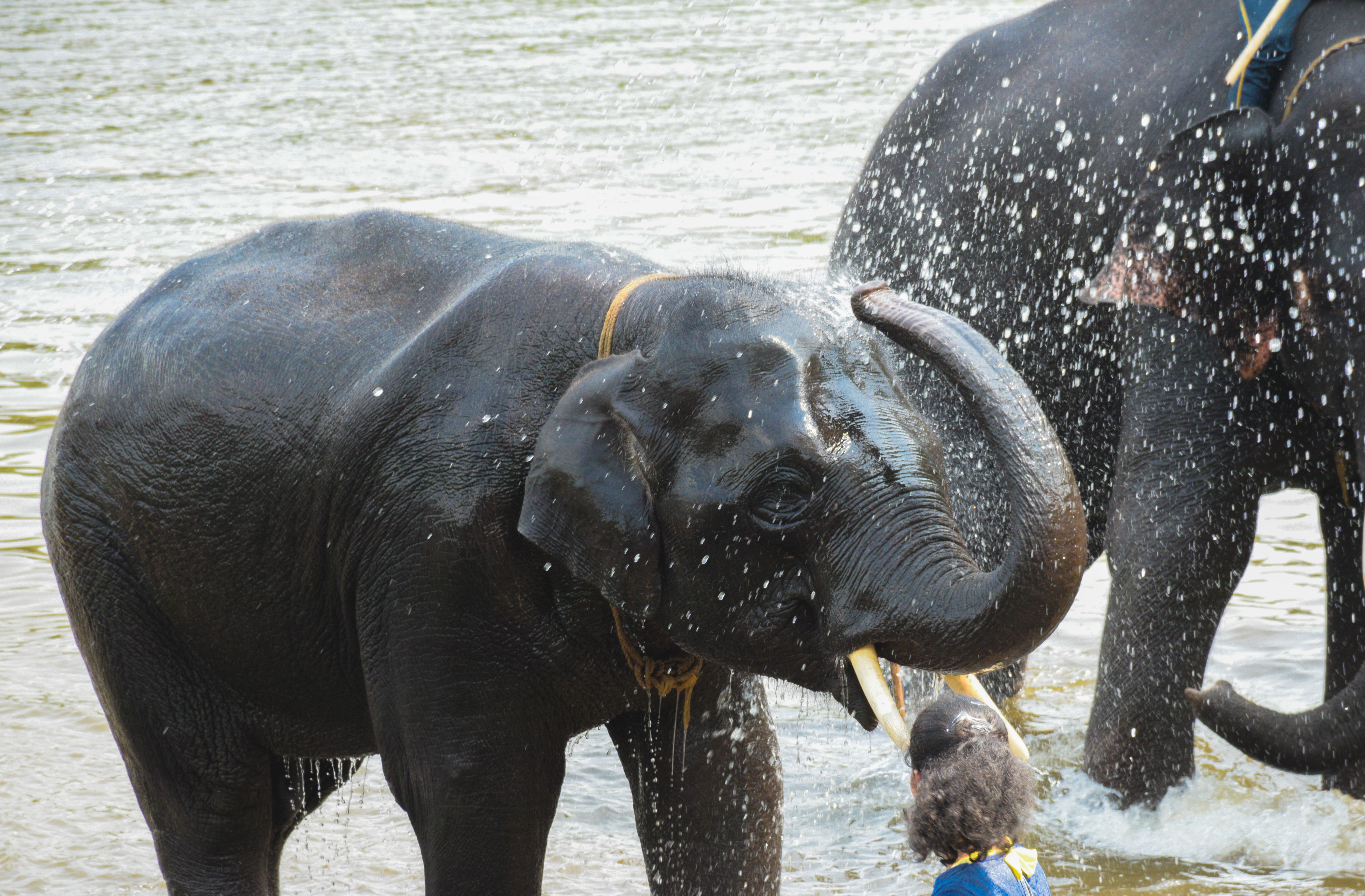 Indian Elephants bathing at Madumalai Elephant Camp